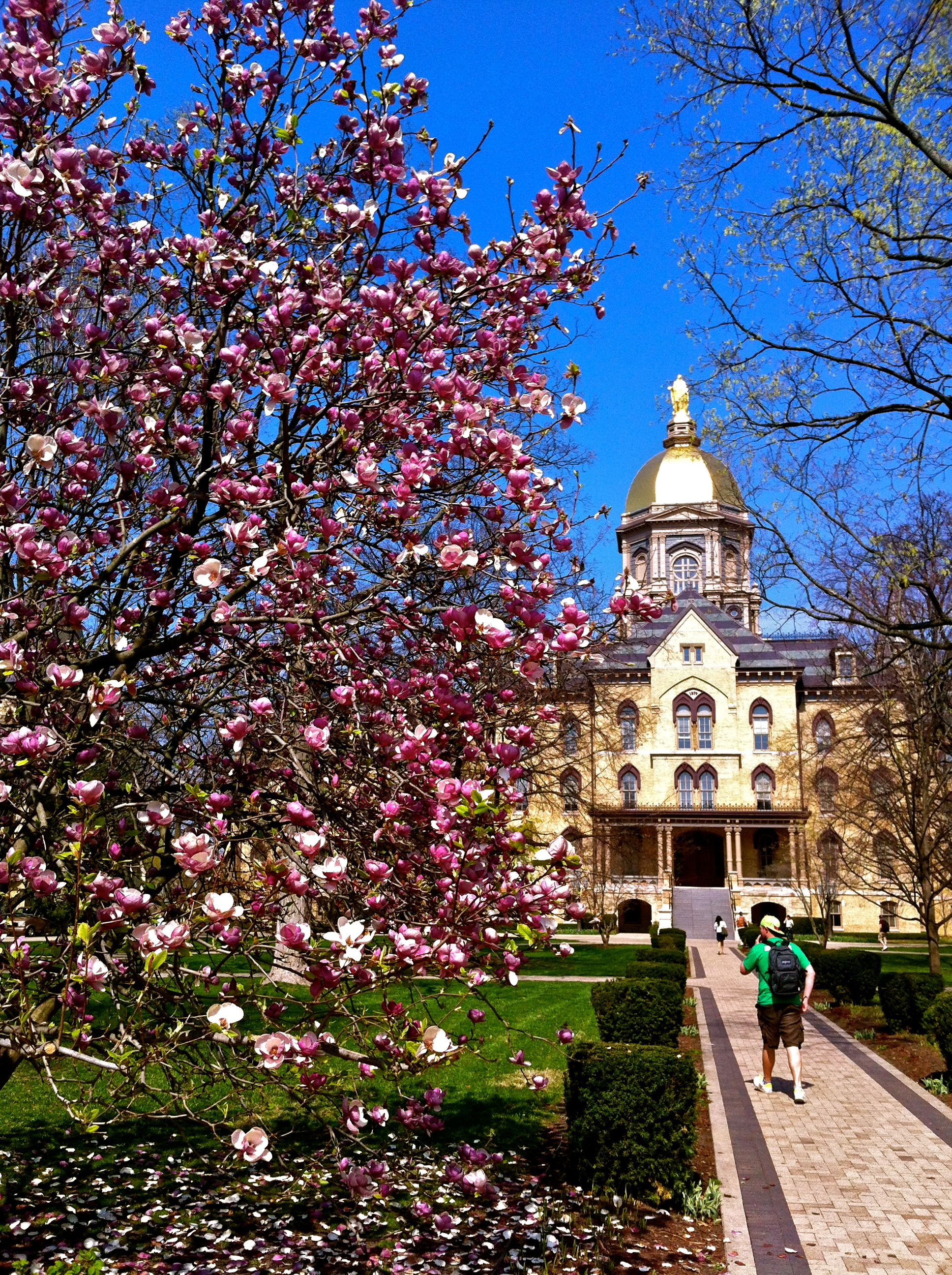 Spring flowers in front of Golden Dome